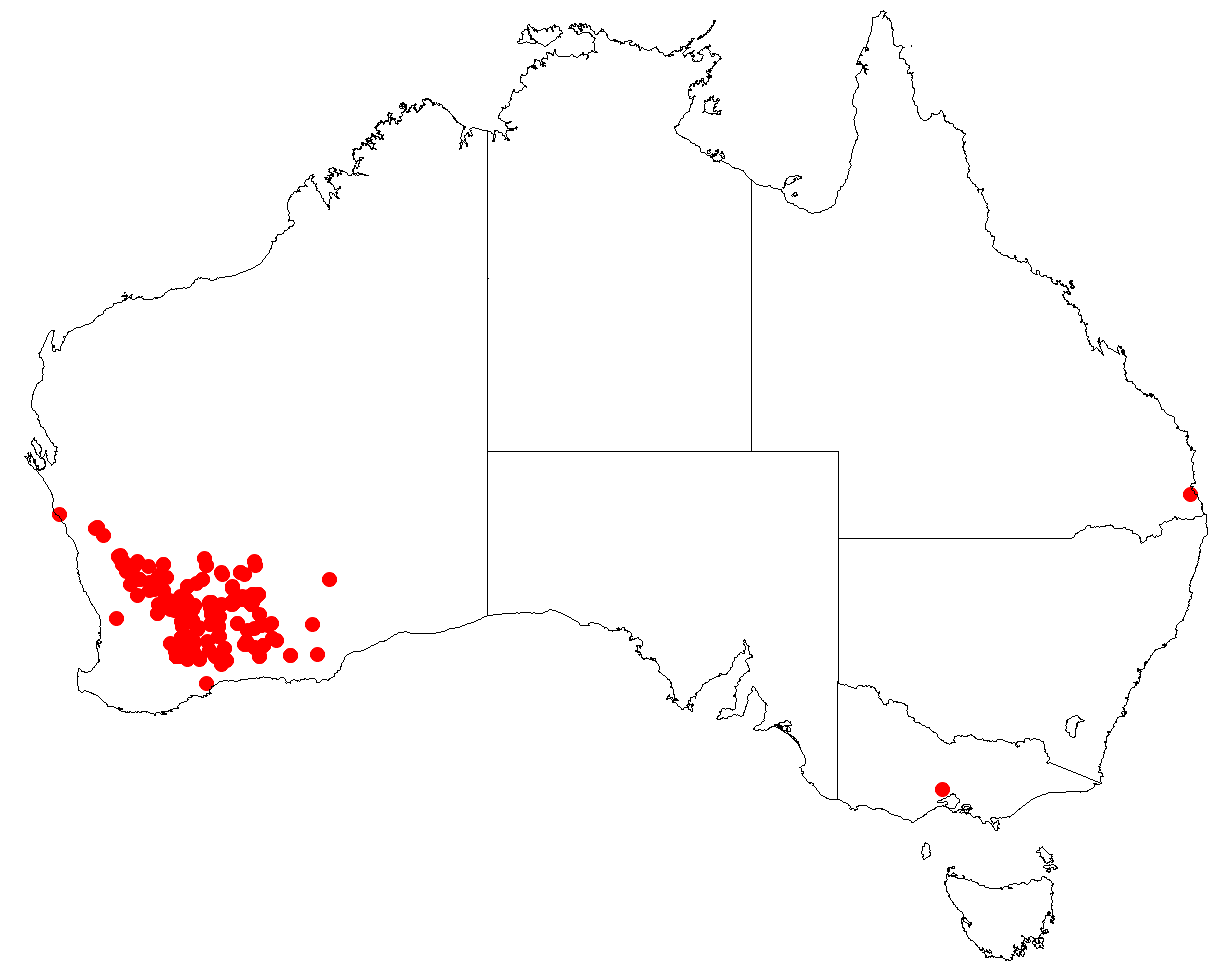 Allocasuarina corniculata occurrence data from Australasian Virtual Herbarium download 4 July 2018